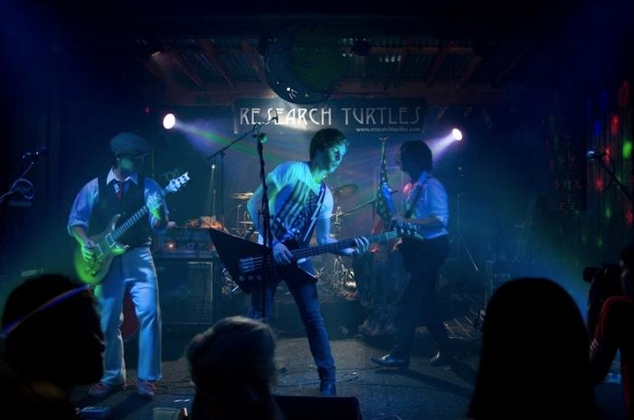 Research Turtles in Concert